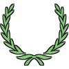 Modified version (without the "W") of the image:Wikipedia_laurier_W.png made by Nojhan